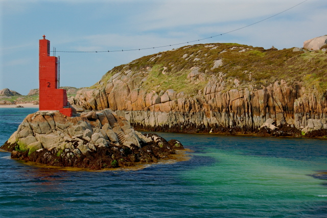 Channel marker at NW end of Inishcoo Island